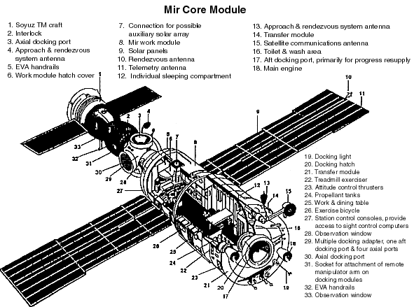 A diagram showing the initial orbital configuration of the core module (or 'base block') of the Soviet/Russian space station Mir, along with a docked Soyuz spacecraft.